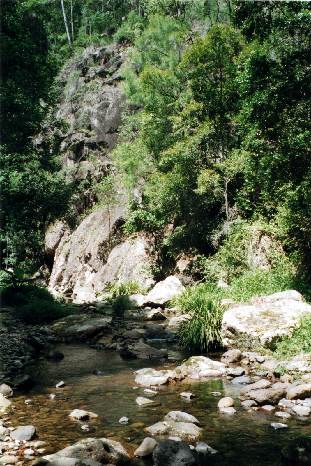 Couchy Creek, north eastern New South Wales